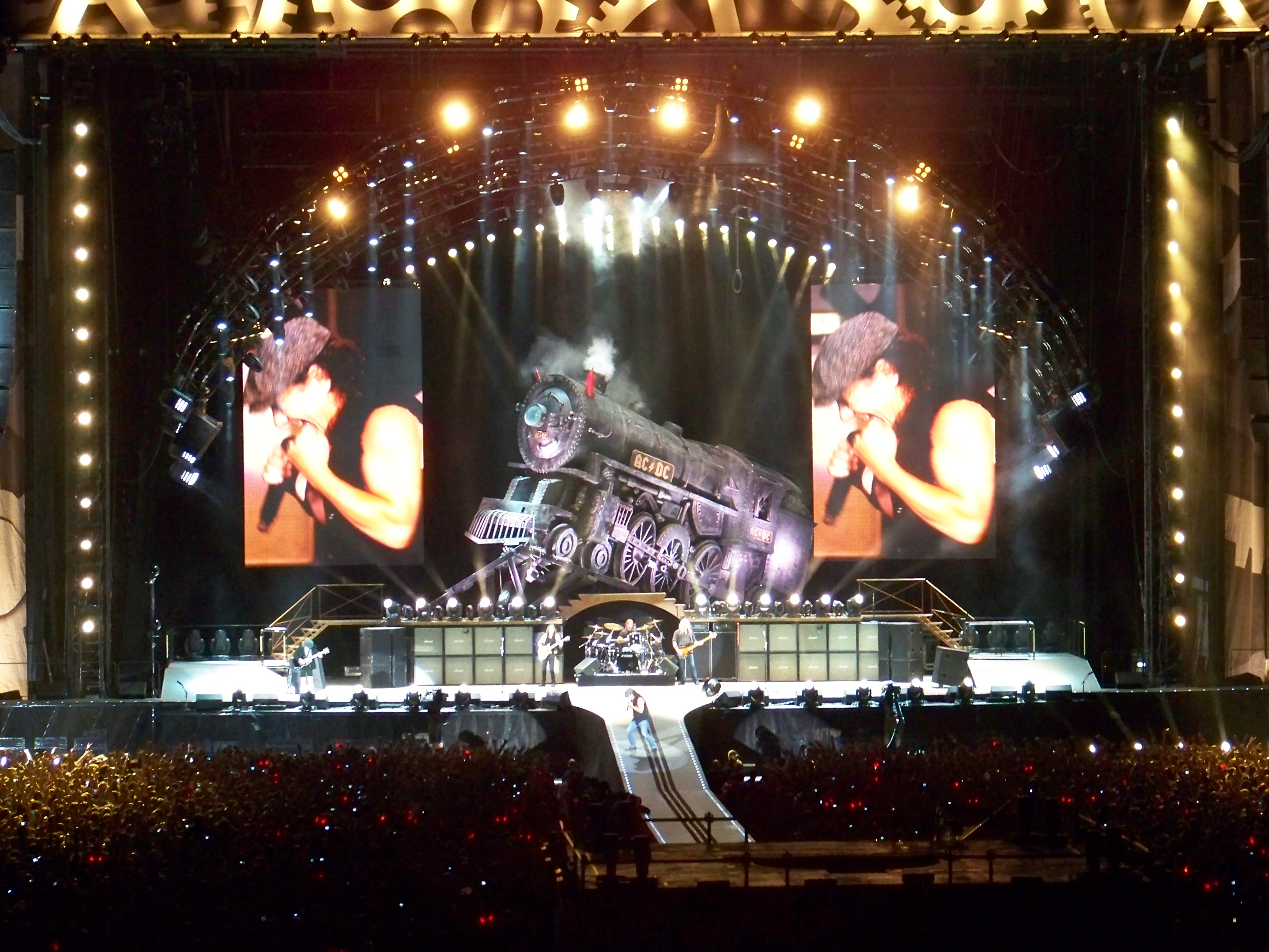 AC/DC Madrid